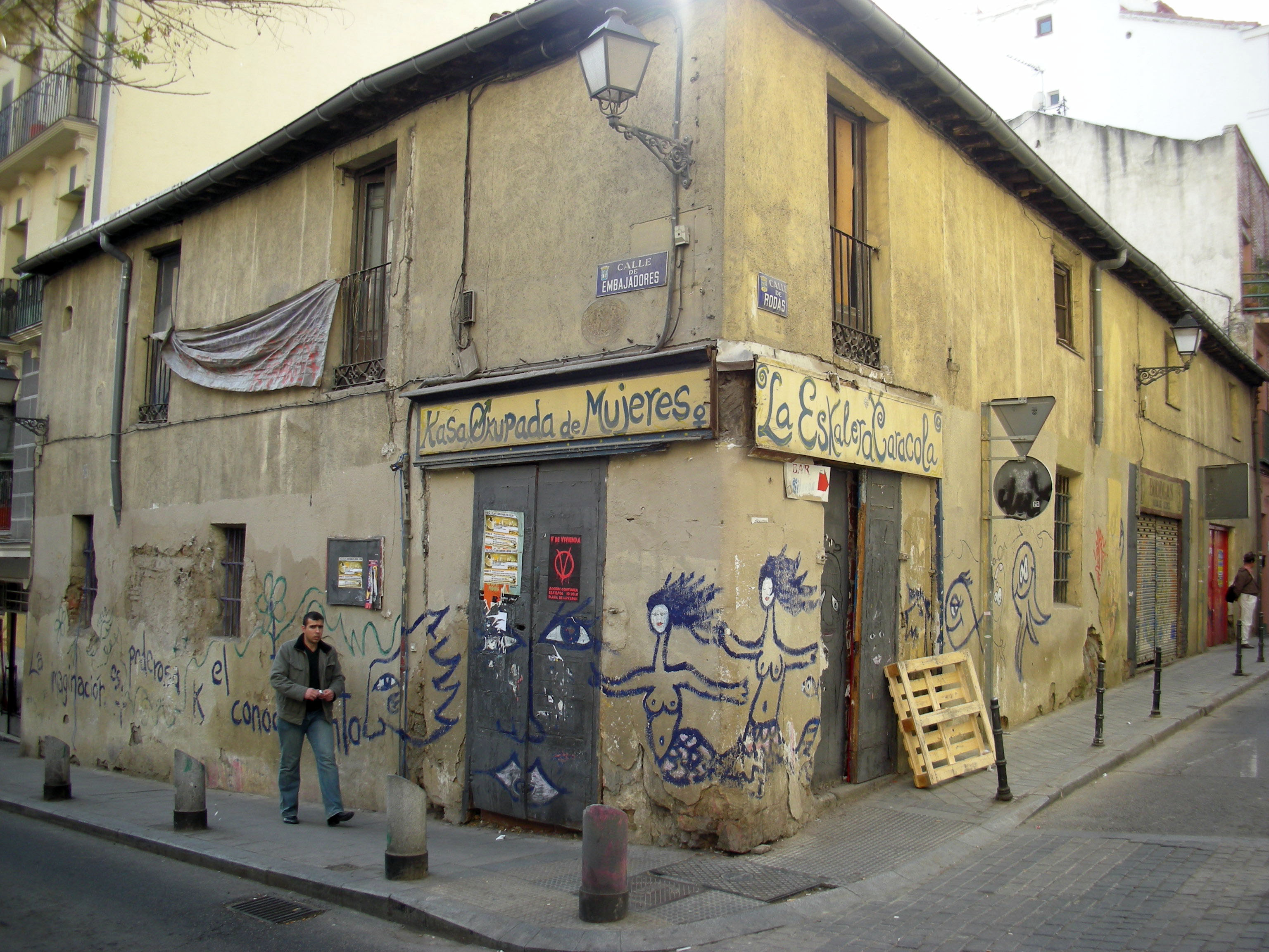 A feminist squatter's residence in Madrid, Spain, the exterior is covered with feminist graffiti